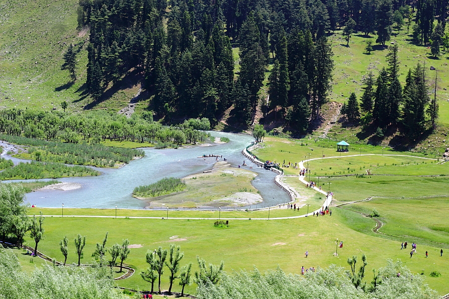 View of Betab valley